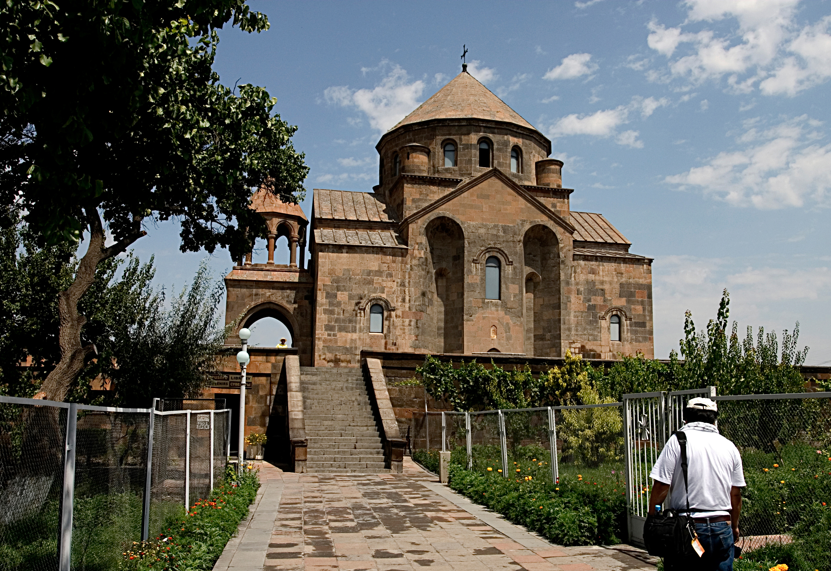 St. Hripsime Church. View from below